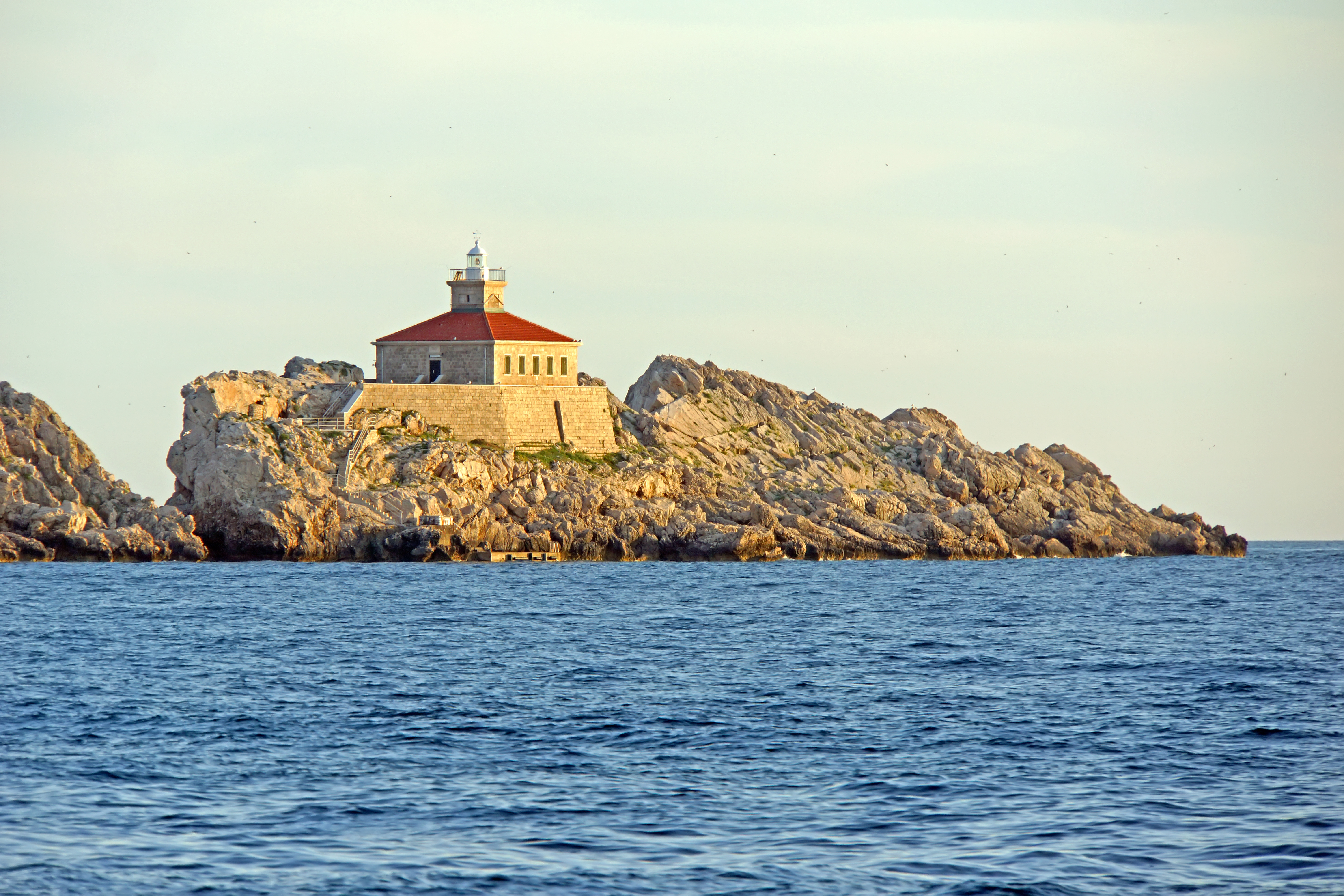 PLEASE,invitations or self promotion in your comments, THEY WILL BE DELETED. My photos are FREE for anyone to use, just give me credit and it would be nice if you let me know, thanks - NONE OF MY PICTURES ARE HDR. The lighthouse "Grebeni" built in 1872 on the cliffs on the eastern side of the entrance to the Great Gate of Dubrovnik is located on an island with the same name. It is located west of the port of Dubrovnik "Lapad". Today, it offers luxurious accommodation for those who want to enjoy their privacy.